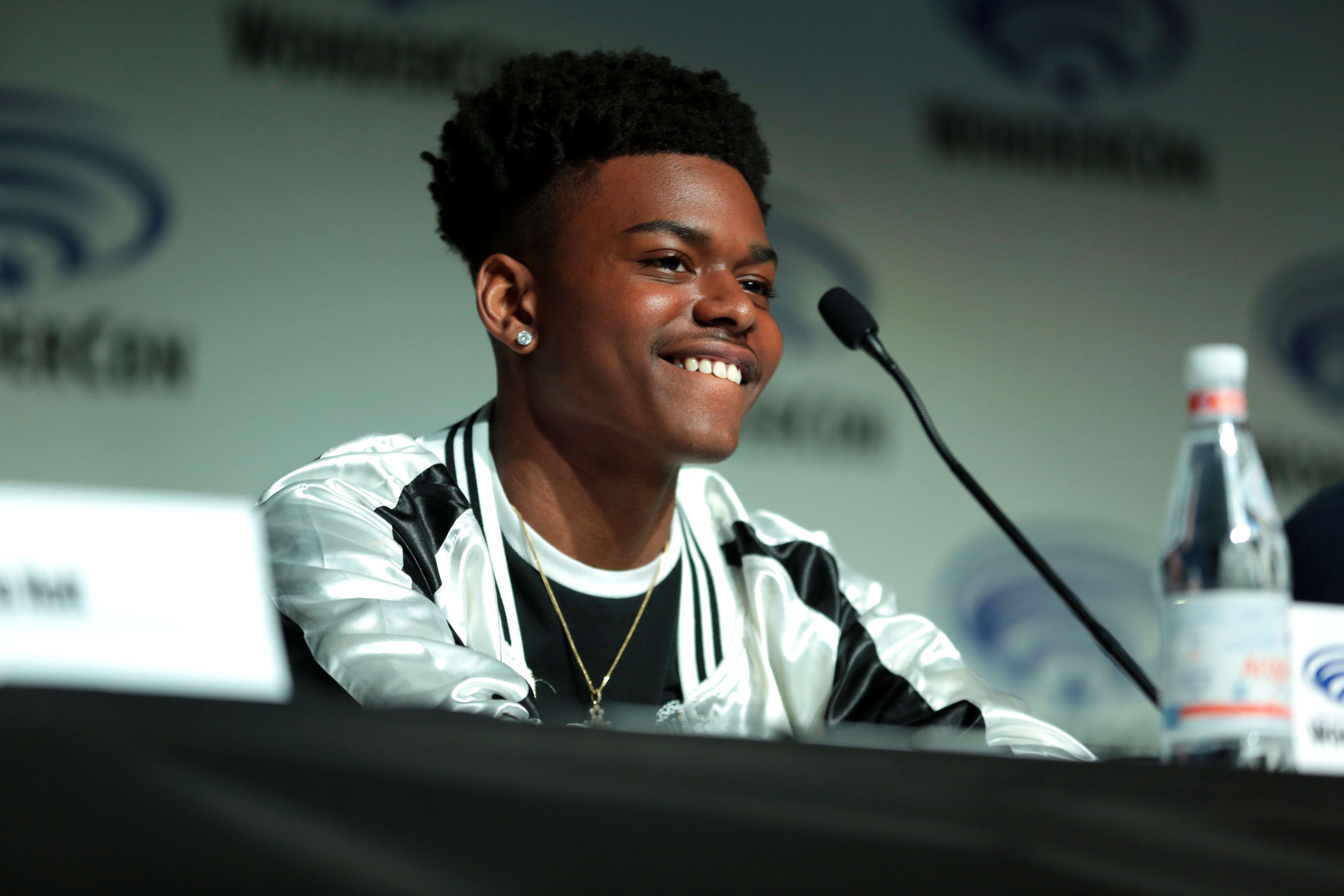 Aubrey Joseph speaking at the 2018 WonderCon, for "Cloak & Dagger", at the Anaheim Convention Center in Anaheim, California.